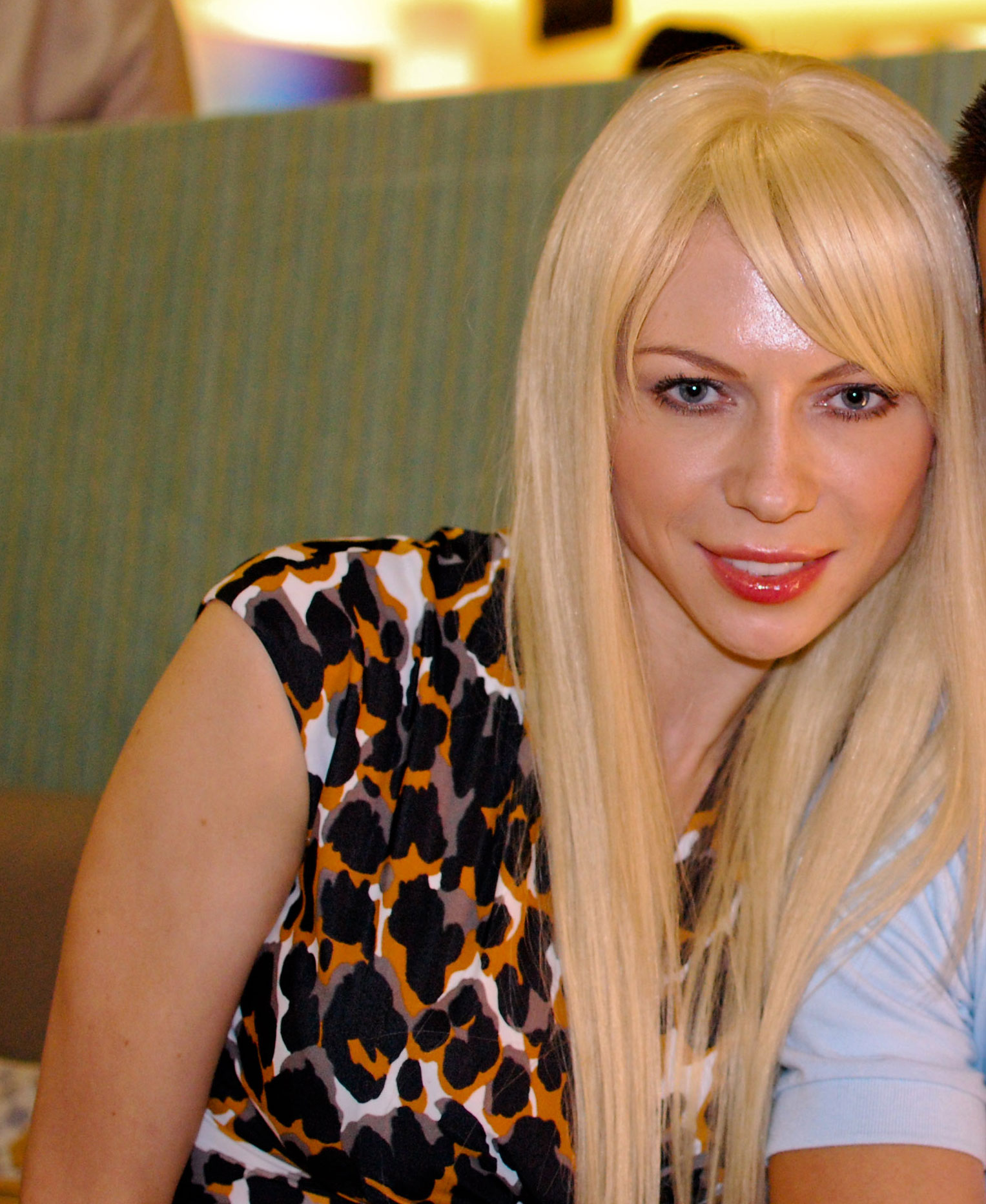 Marina Orlova aka HotforWords at EG2010 Monterey, CA, conference.